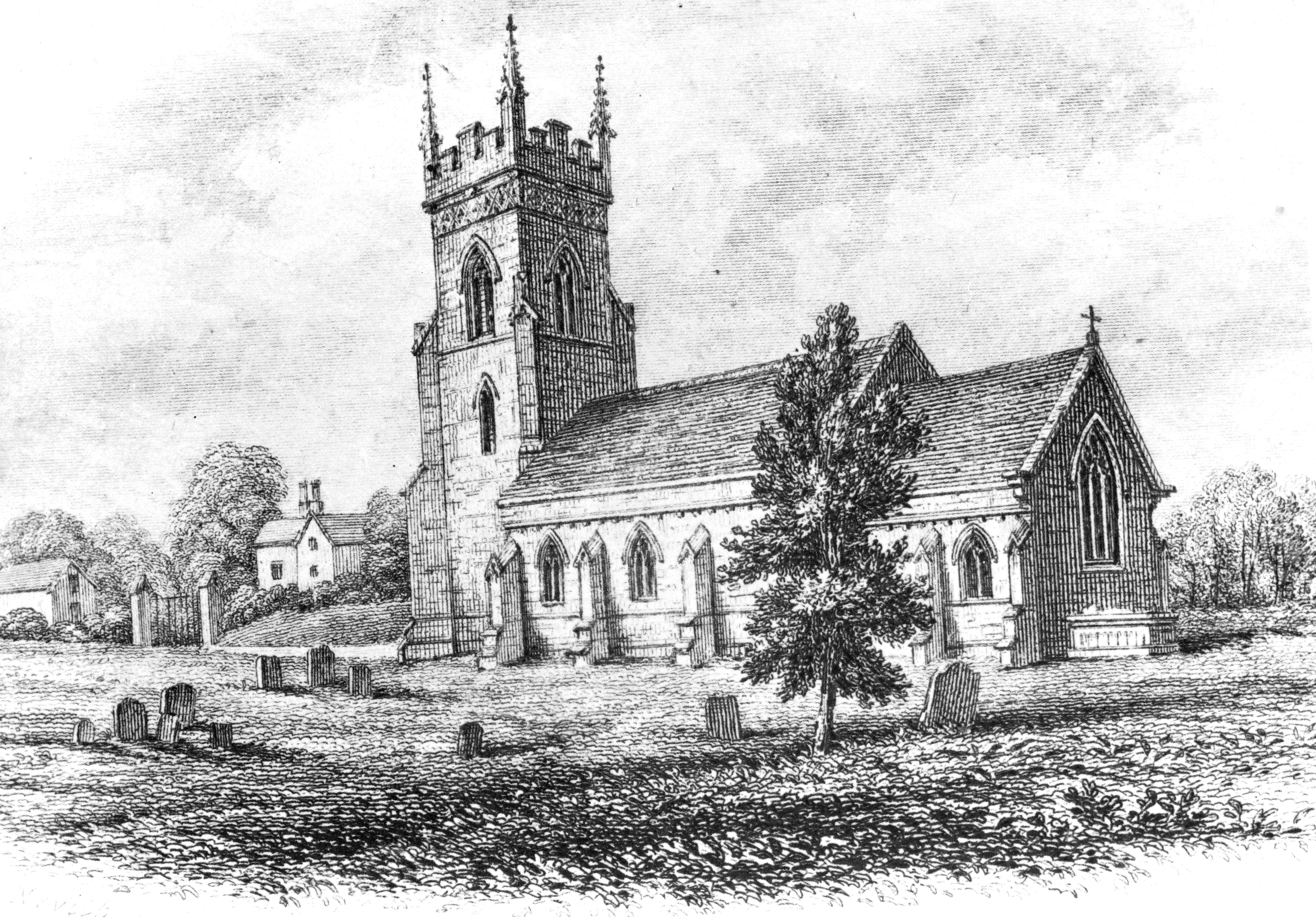 Christ Church, Lichfield. This engraving shows the church as designed by Thomas Johnson before further changes were made in 1887. The date is unknown but must be after 1851 as there is the tomb of Mrs Hinckley's son, who died that year.